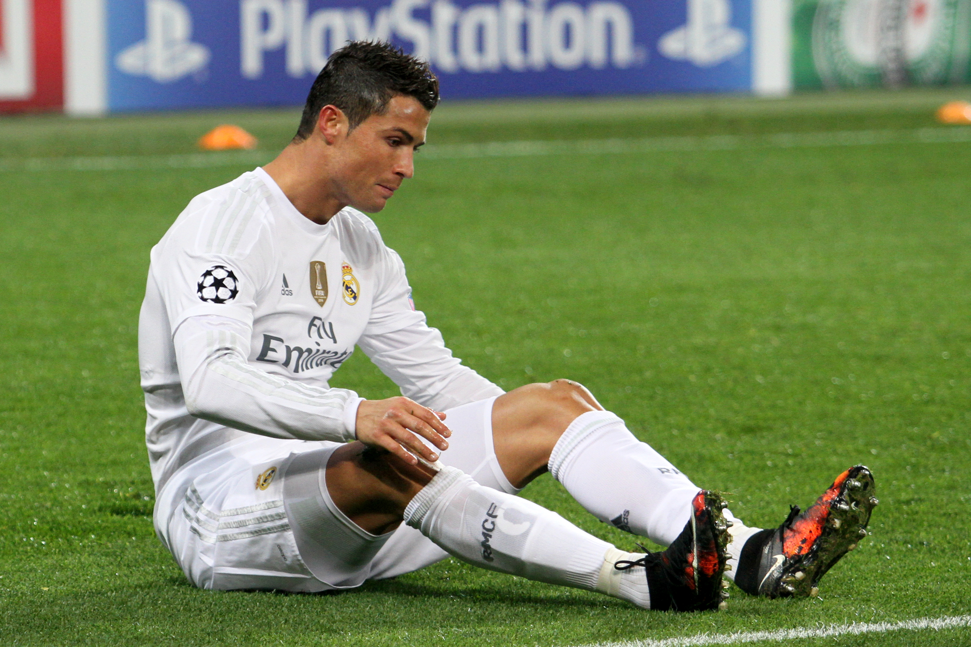 Cristiano Ronaldo of FC Real Madrid during the match of UEFA Champions League against FC Shakhtar at the Arena Lviv stadium on November 25, 2015 in Lviv, Ukraine.